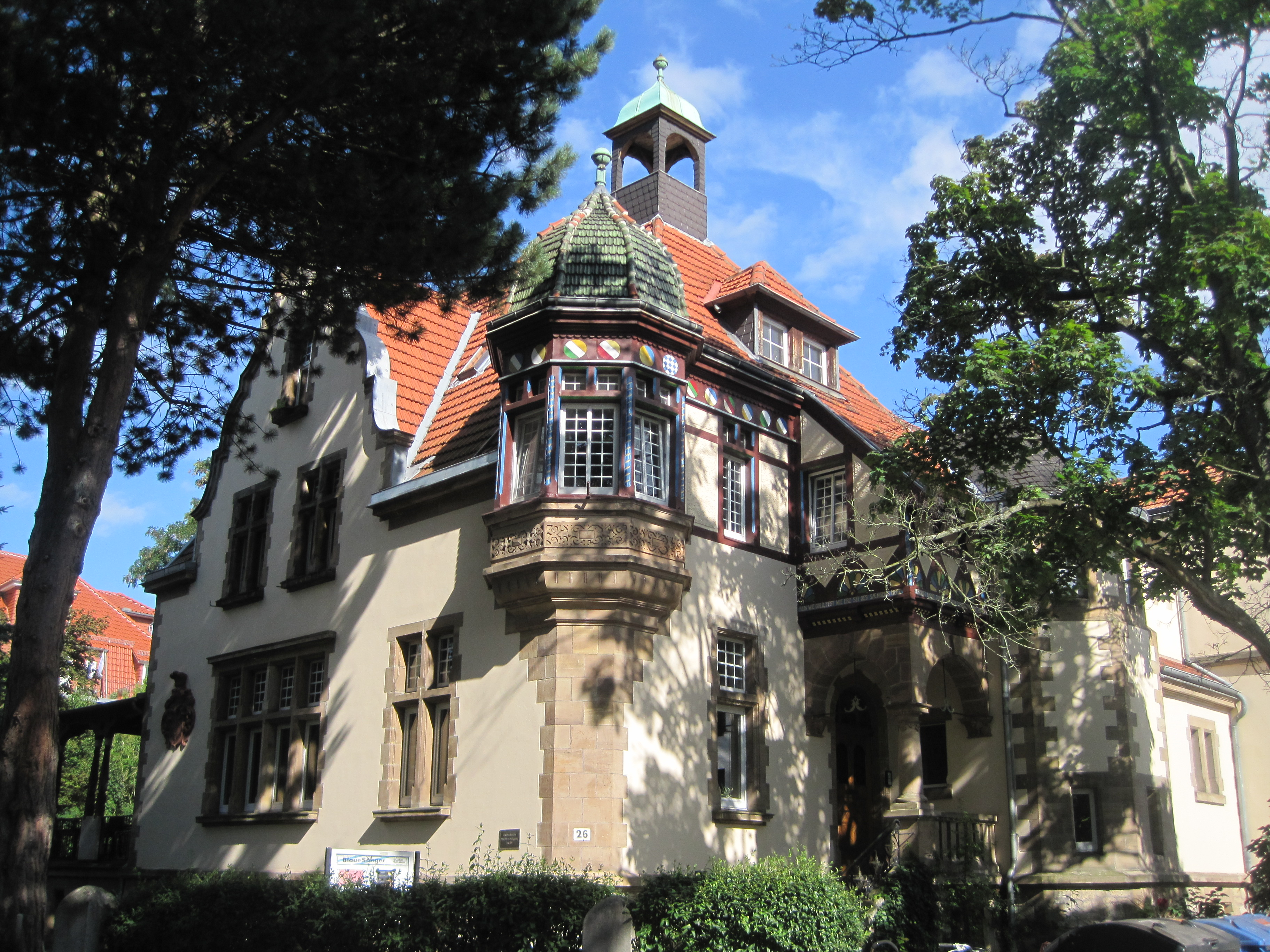 Building of StMV Blaue Sänger, Göttingen, Germany